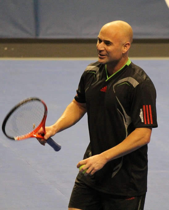 Andre Agassi, playing in Champions Shootout, Philadelphia